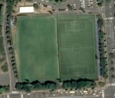 Satellite view